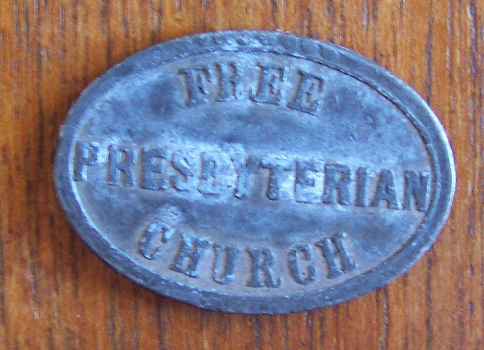 Obverse of a Free Presbyterian communion token